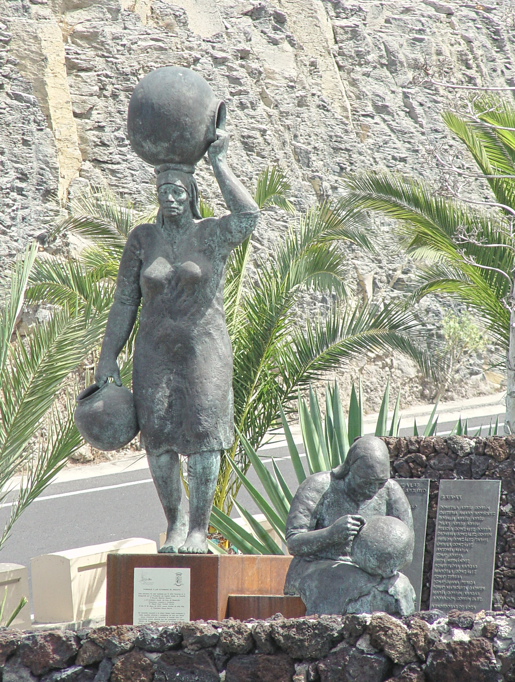 Arguayo, Tenerife, Canary Islands, Spain. Monument showing female potters.